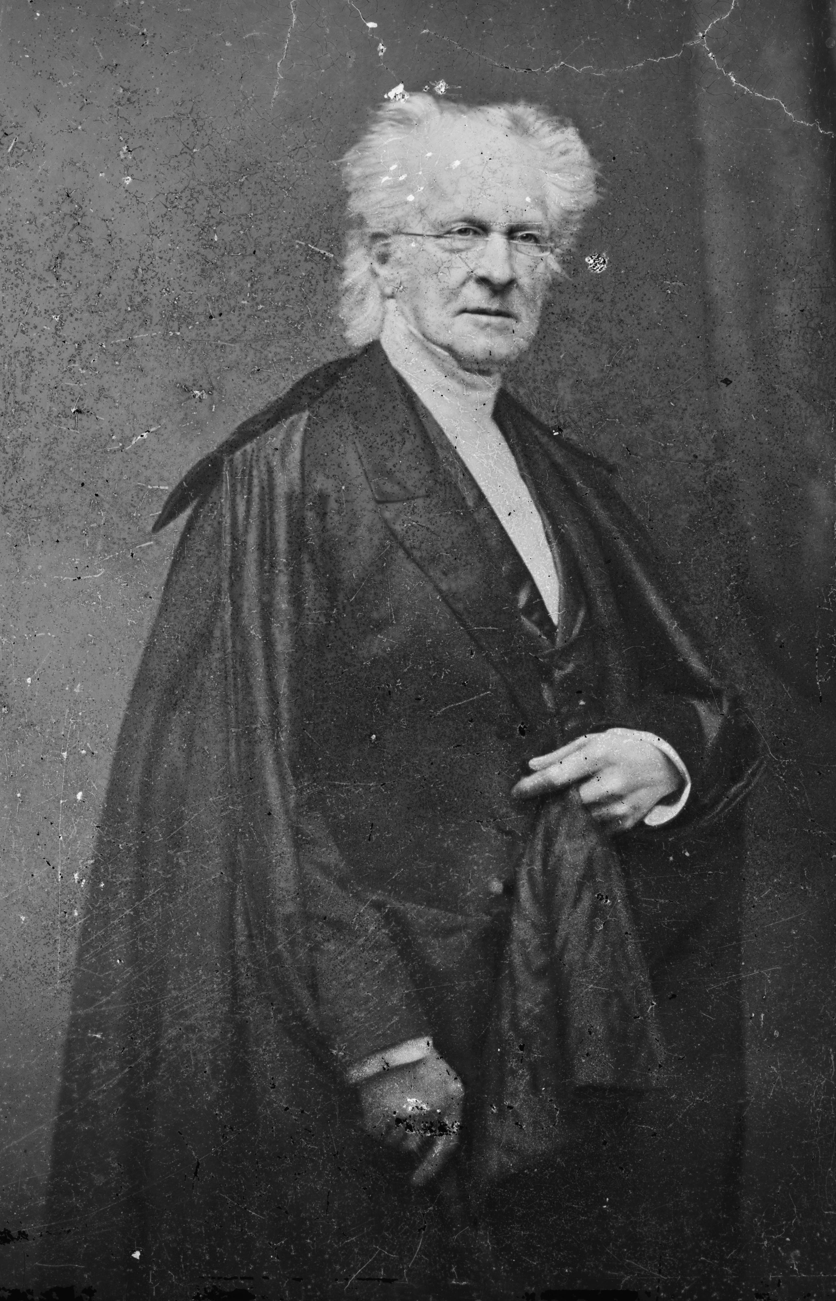 Rembrandt Peale. Library of Congress description: "Rembrandt Peale".